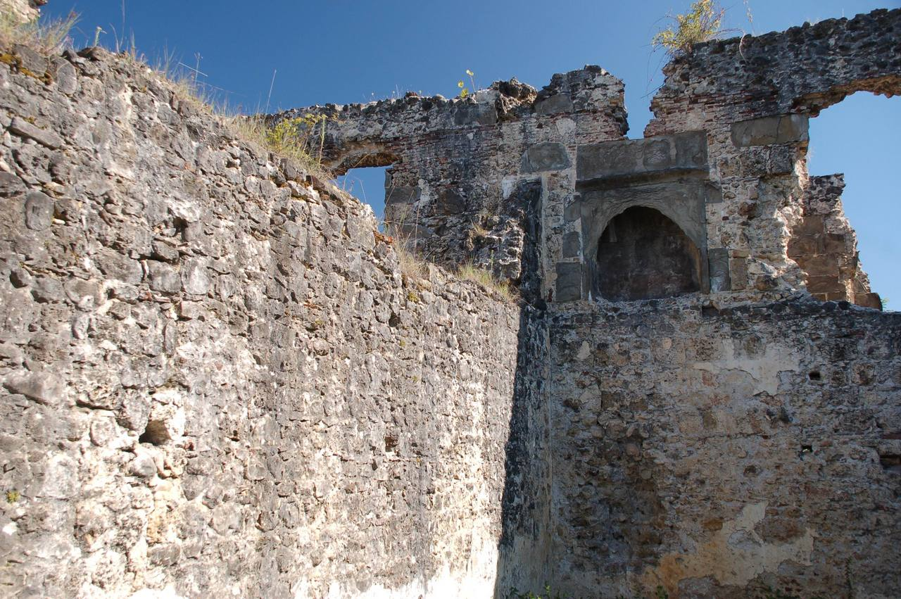 Ruins of the fortress in Lykhny, Abkhazia